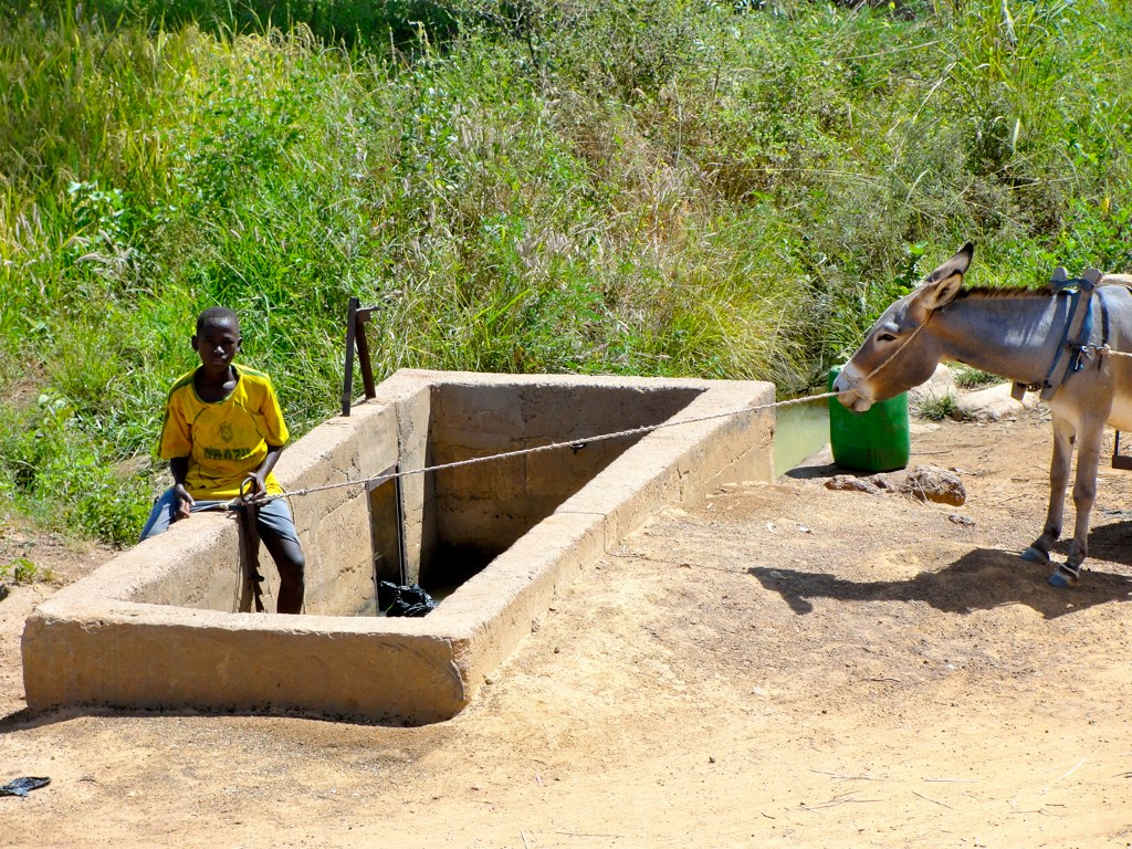 A boy sits on the edge of a well with a donkey tethered nearby.